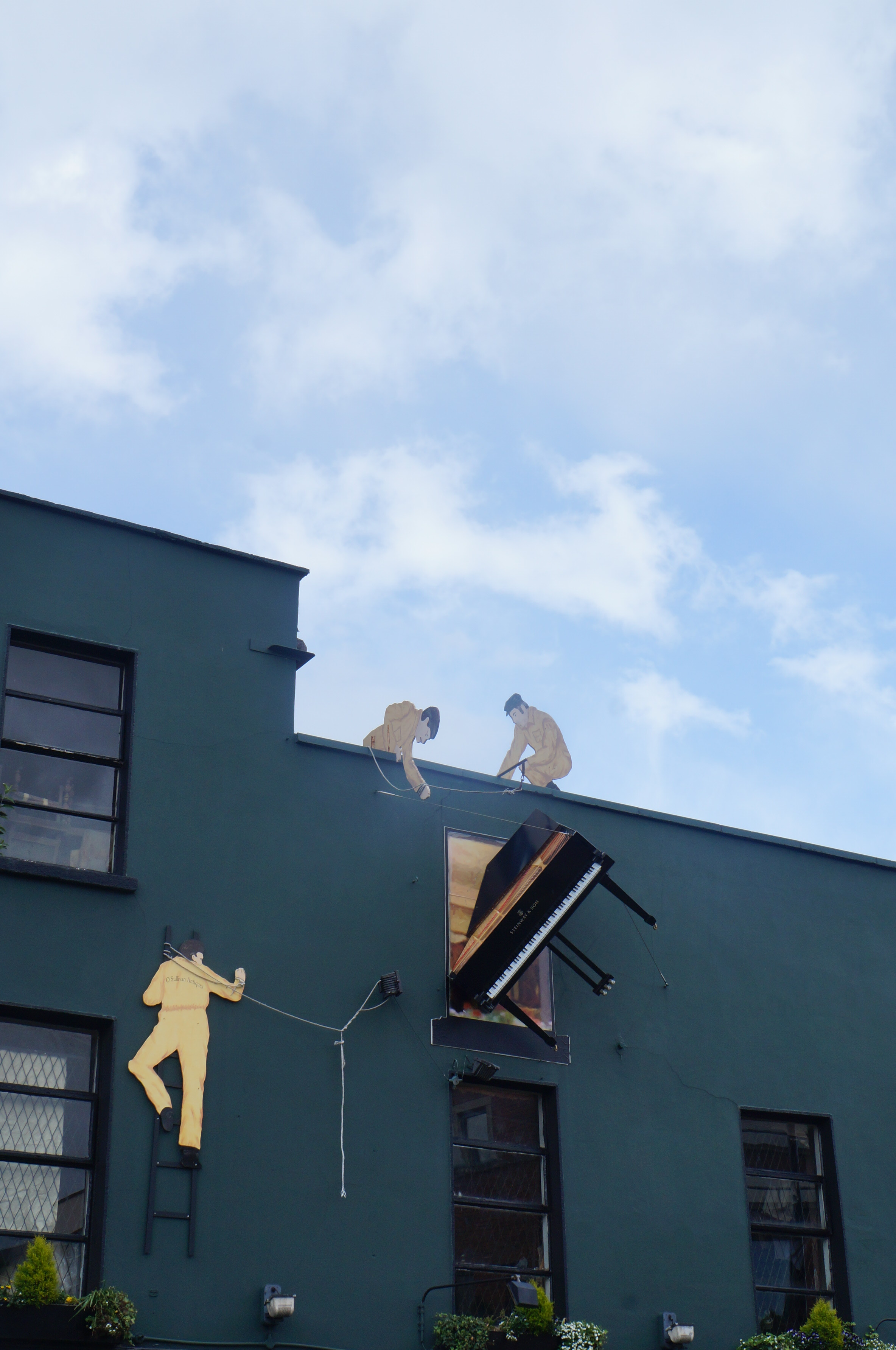 O'Sullivan Antiques on Francis Street